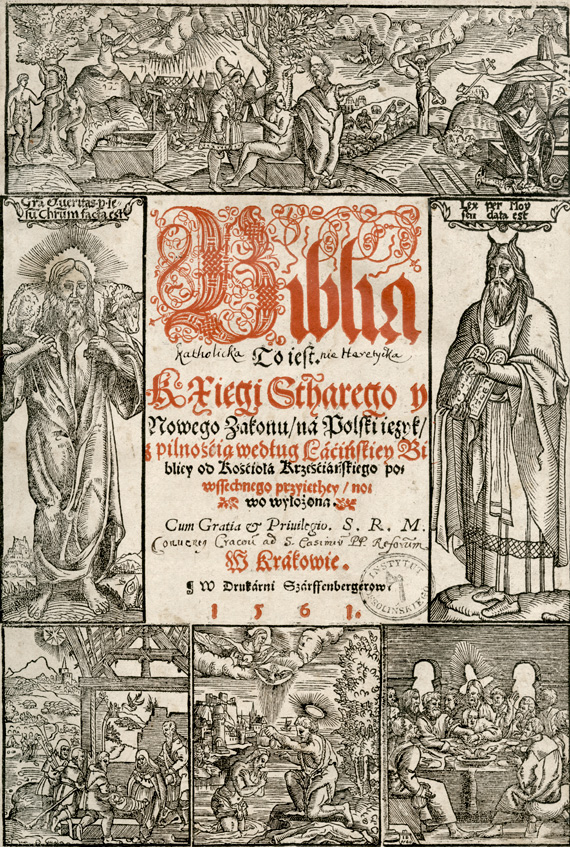 Old-Polish catholic "Cracow Bible" cover (1561)